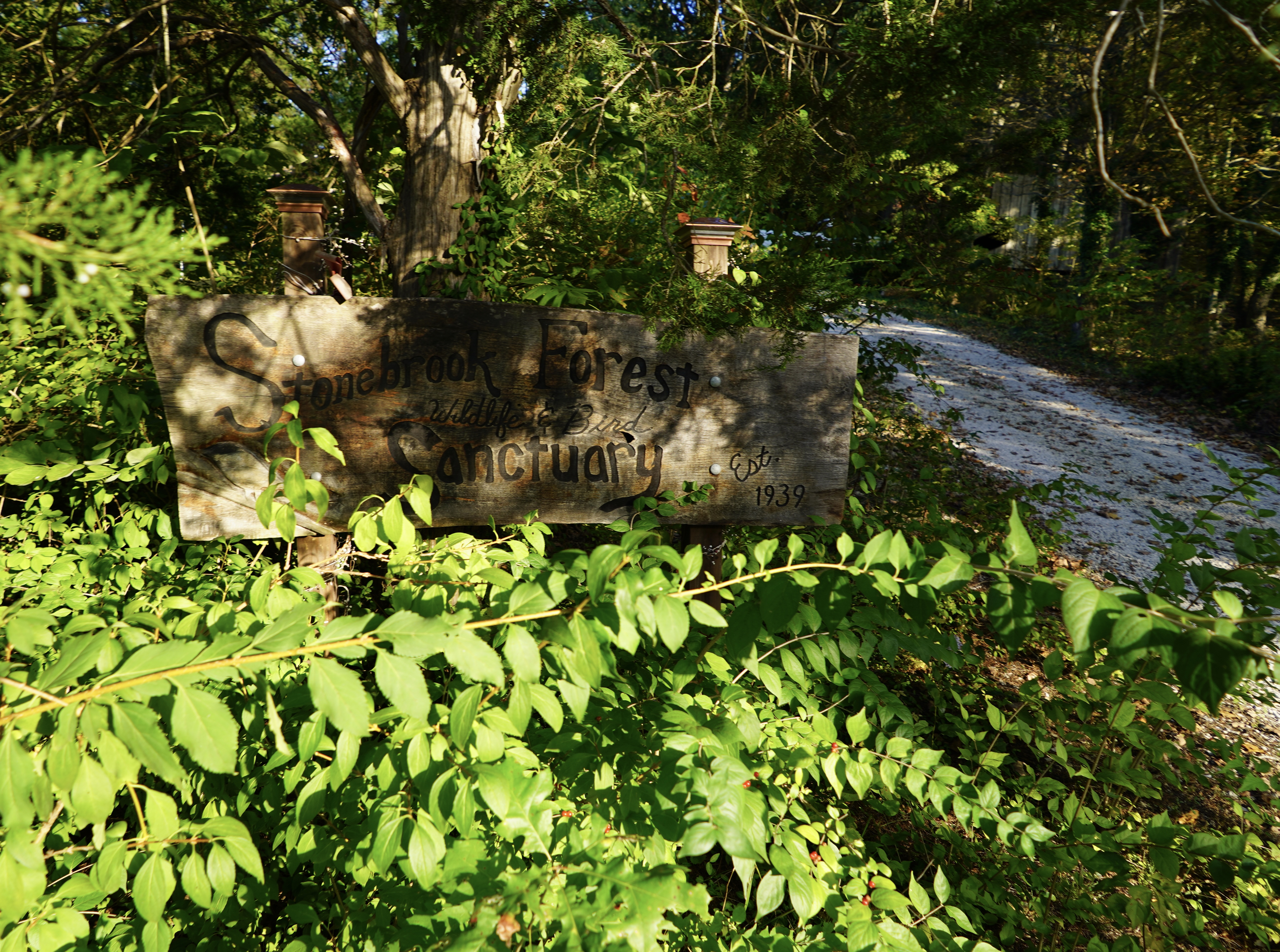 Stonebrook